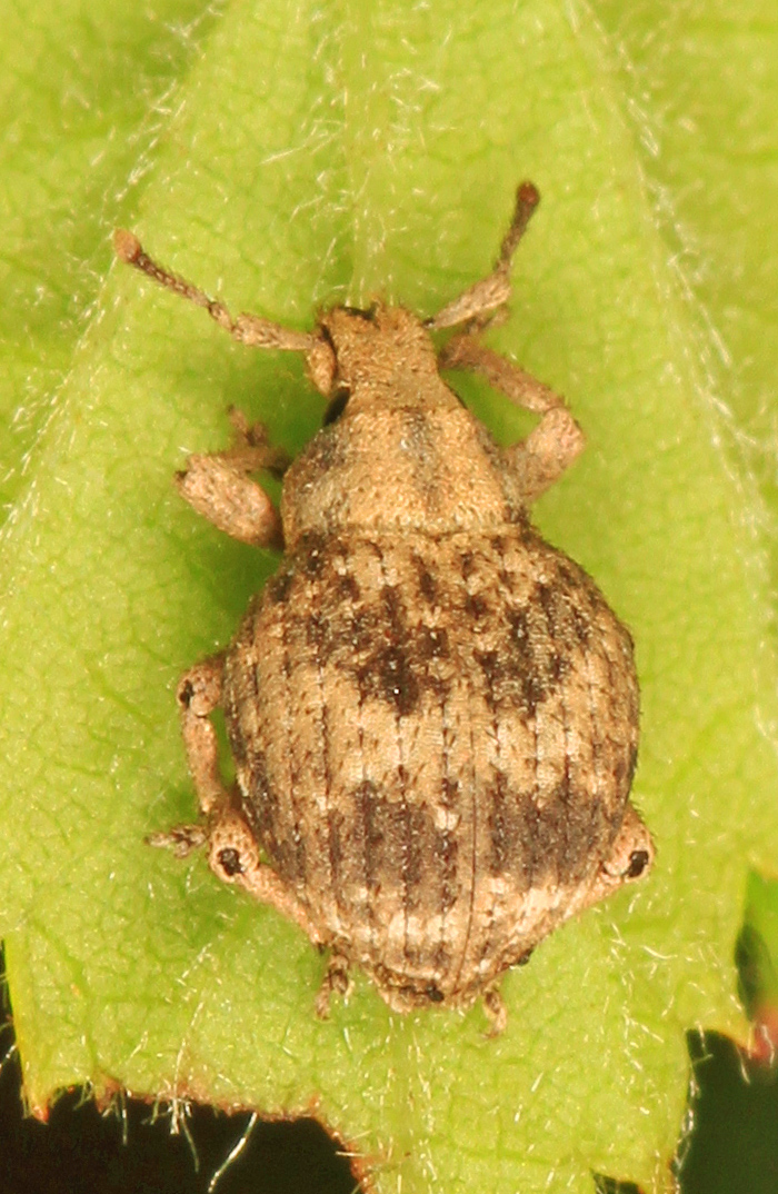 Two-banded Japanese Weevil - Pseudocneorhinus bifasciatus, Meadowood Farm SRMA, Mason Neck, Virginia.